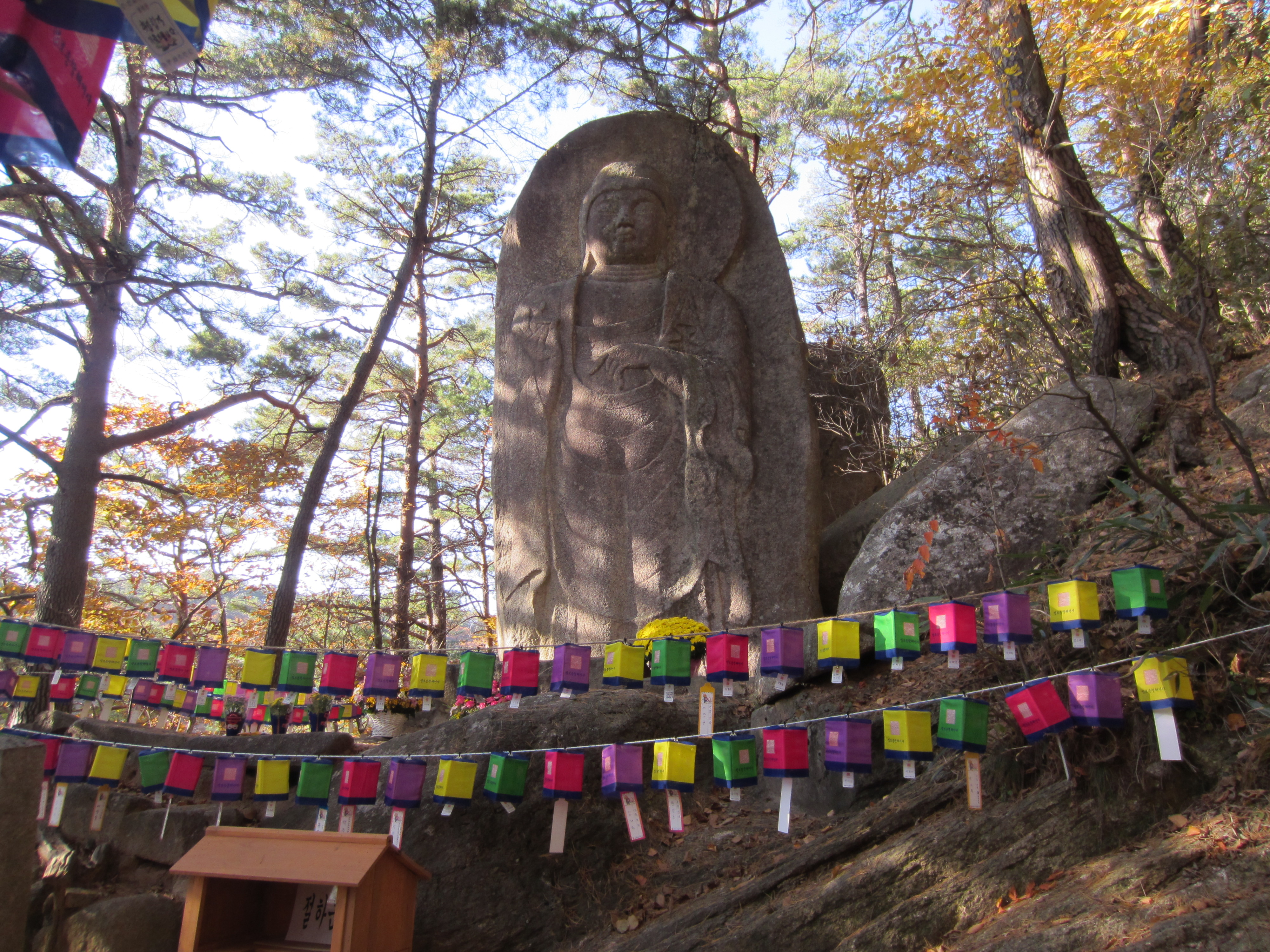 Picture of a stone relief of a standing Buddha (Treasure# 222) between Haeinsa temple and Mtn. Gaya, rarely open to the public.